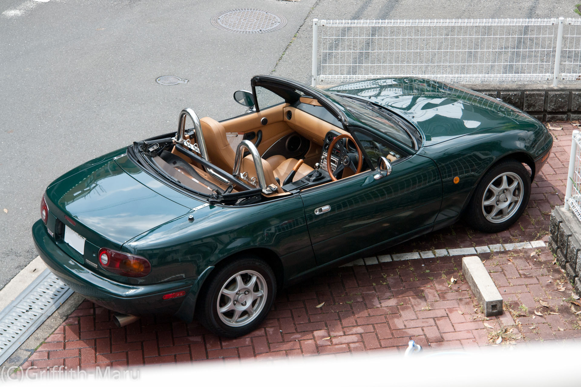 This is my lovely car.